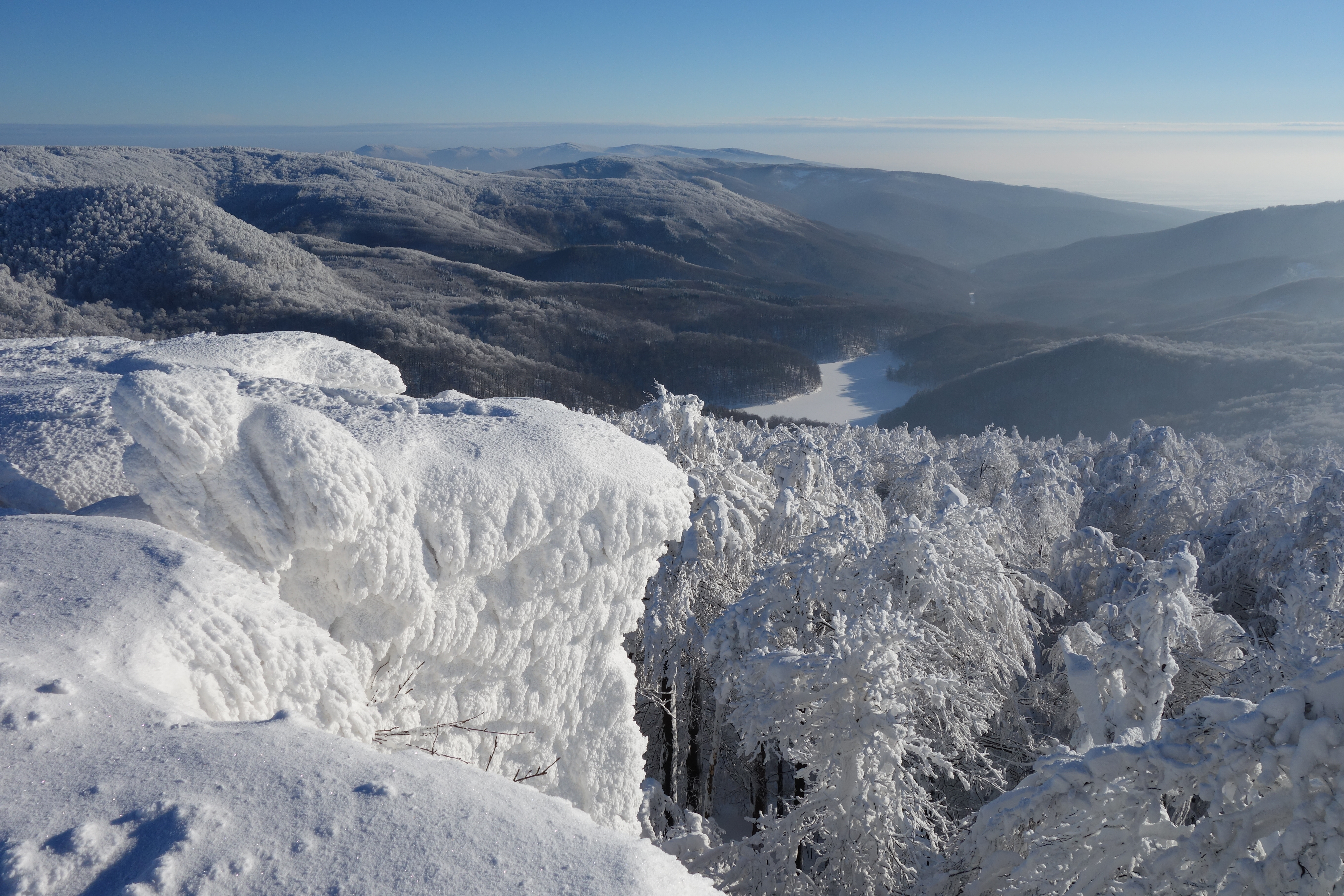 View of Sea Eye Lake from Sninský kameň in winter This is a photography of Natura 2000 protected area with ID SKUEV0209